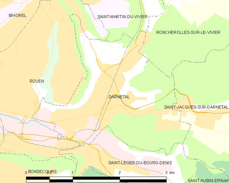 Map of French municipality Darnétal